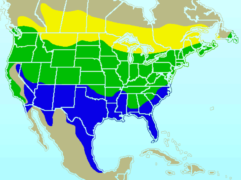 Approximate range−distribution map of the American Goldfinch (Spinus tristis) — also known as the Eastern Goldfinch. In keeping with WikiProject: Birds guidelines: Yellow indicates the summer-only range Blue indicates the winter-only range Green indicates the year-round range.